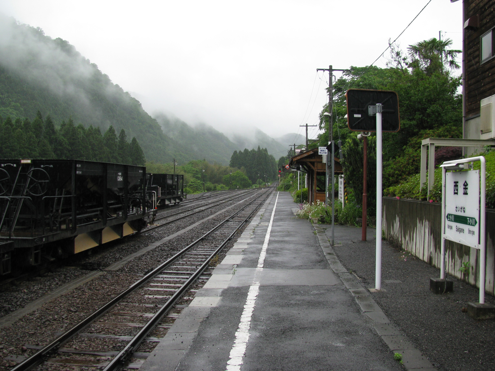 Saigane Station on JR Suigun Line